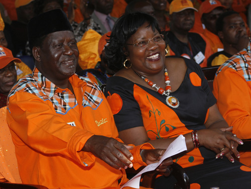 Raila Odinga and his wife Ida Odinga during the ODM Rally at Uhuru park Nairobi.